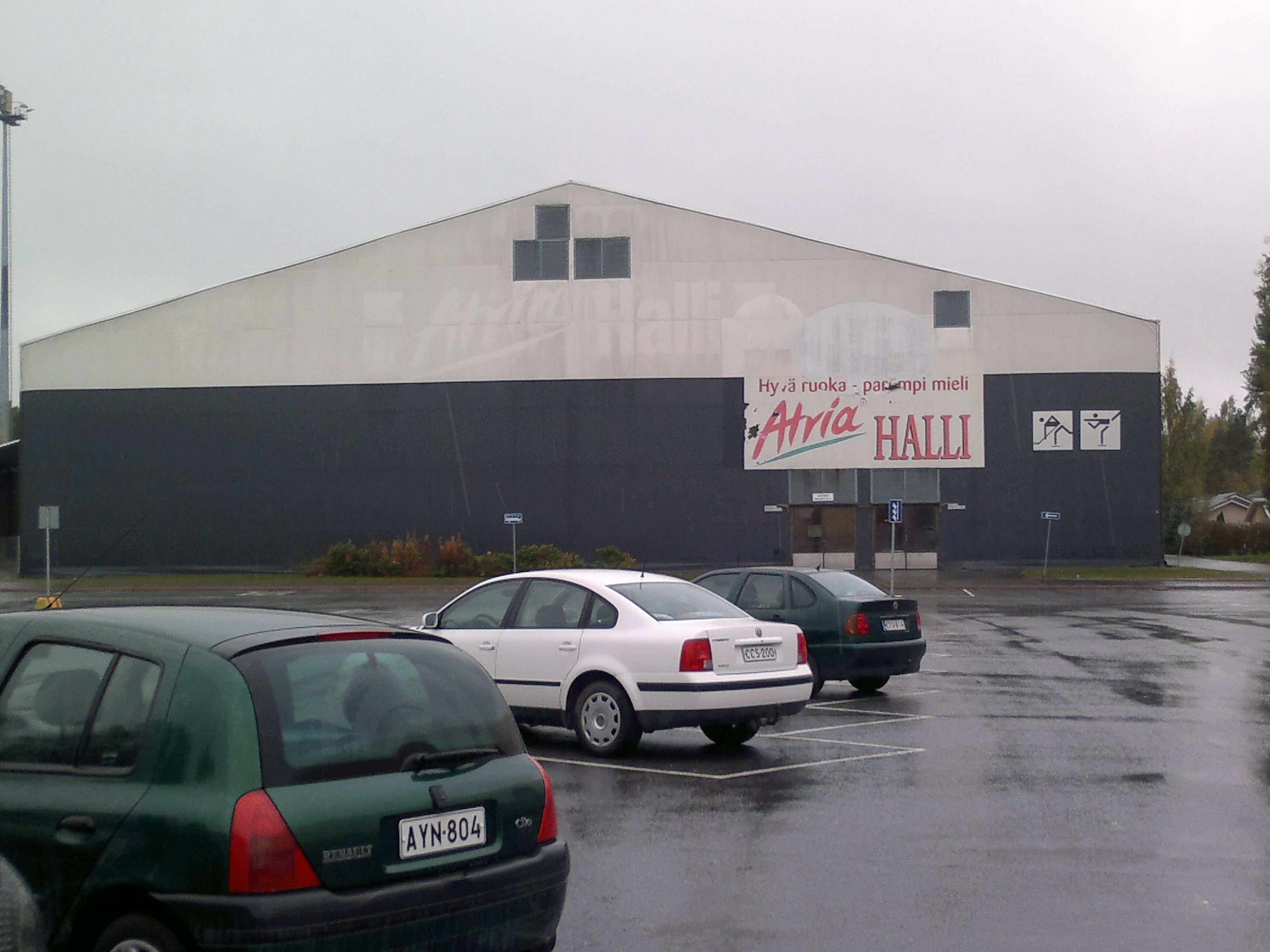 Atria-halli in Seinäjoki, Finland.